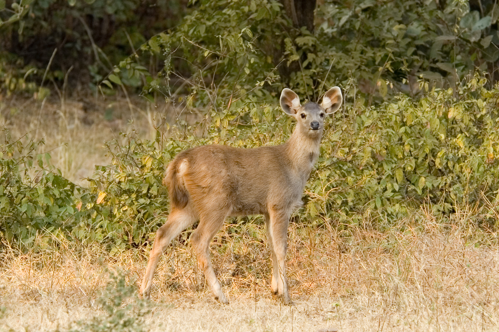 juvenile, on alert in presence of tiger